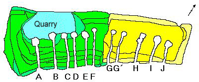 source: German wiki, slightly altered (translation) there: Bild:Megawal9.JPG submitted by user JEW, J.E. Walkowith, 2006